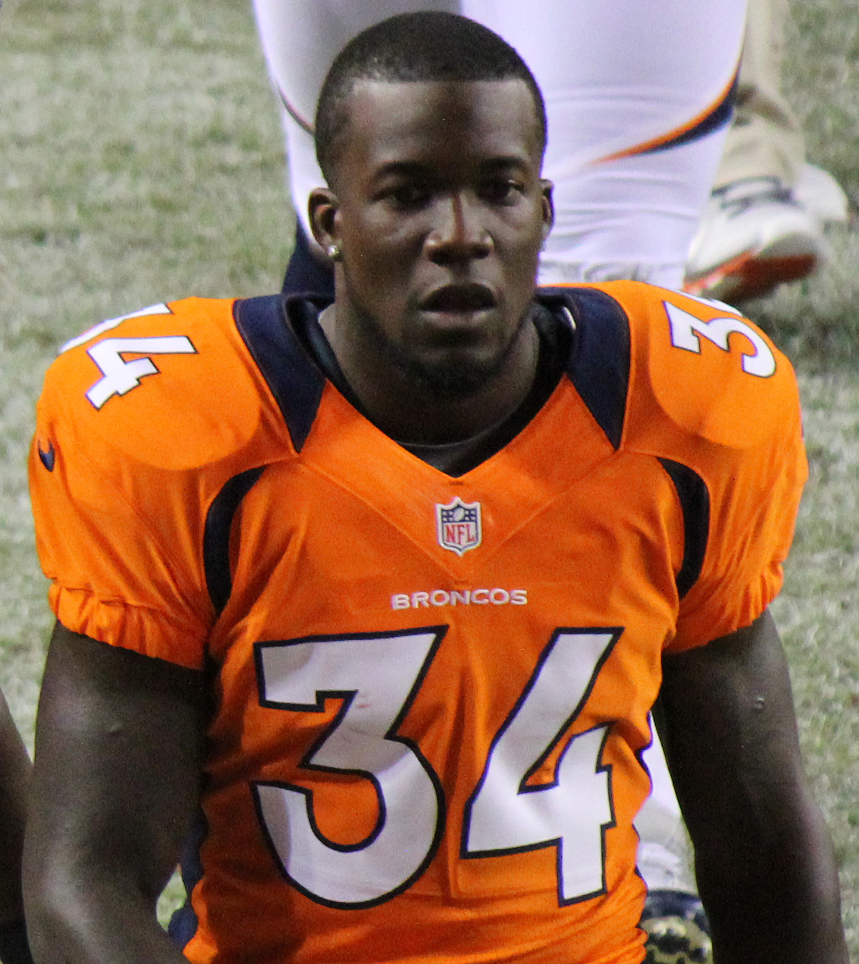 Ronnie Hillman, a player on the National Football League.